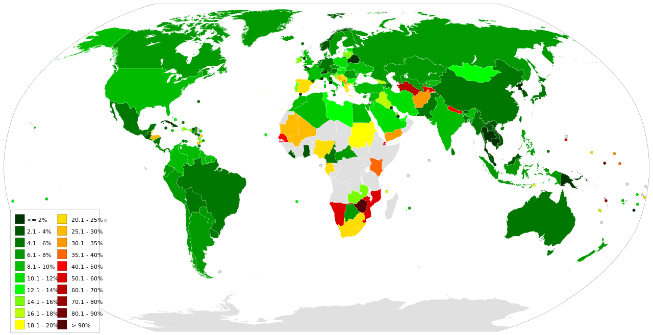 Adding North Korea and Vatican